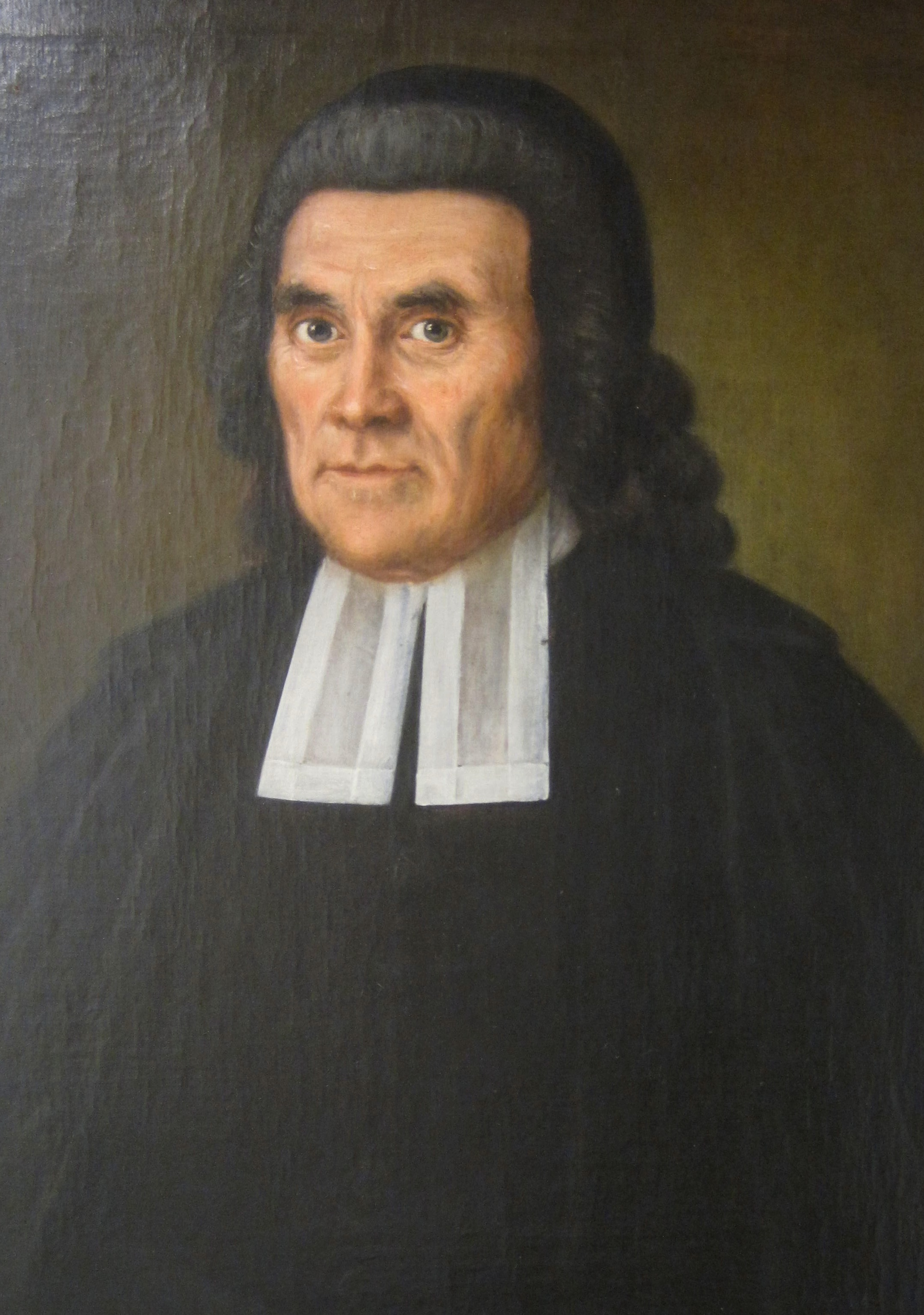 Clas Blechert Trozelius (1719-1794), court chaplain, professor of economy at Lund University. Painting (slightly cropped) by unknown (to the photographer) artist in the art collection of Lund University.